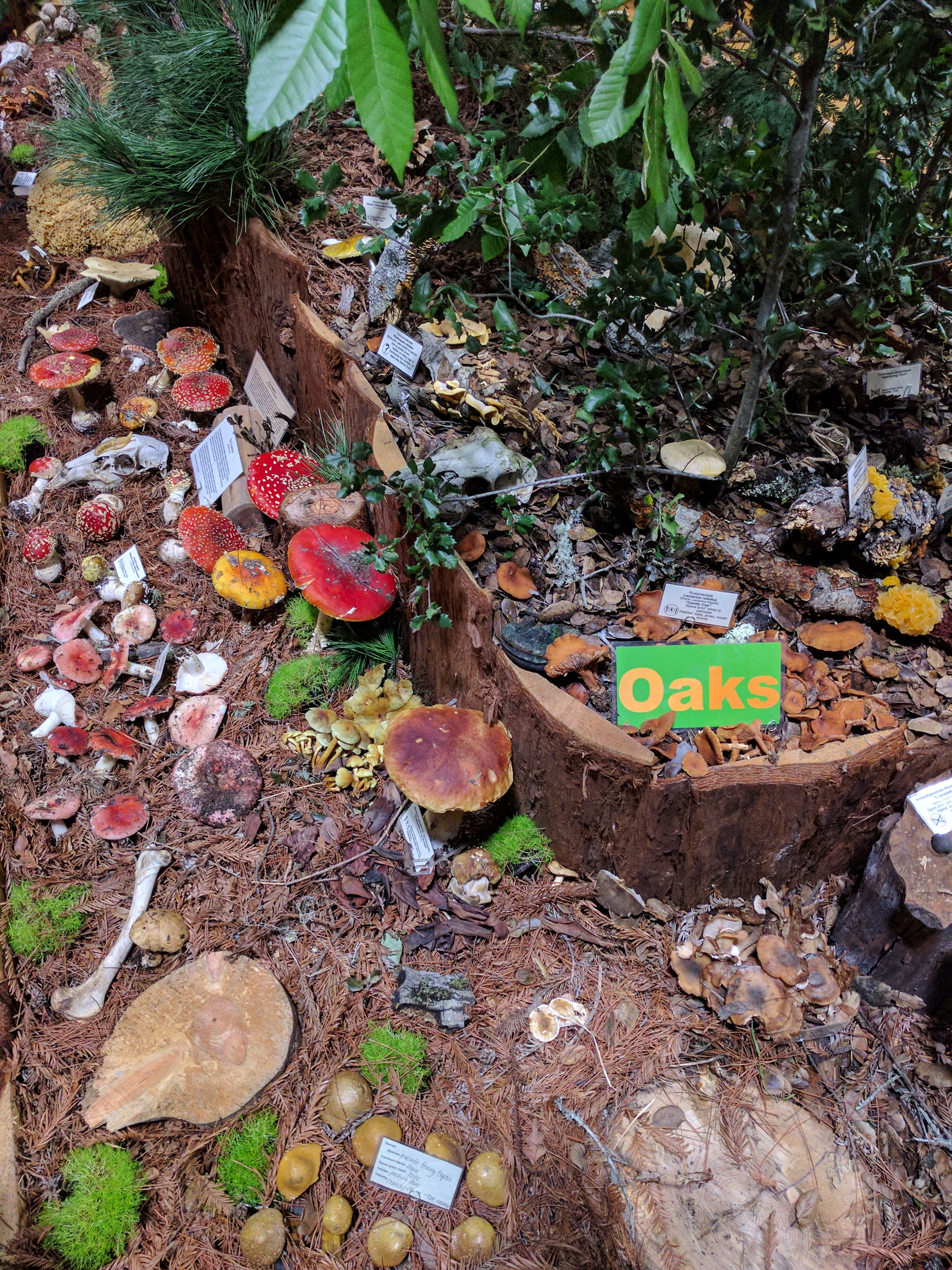 A display showing mushrooms in their environments, exhibited at the 43rd Annual Santa Cruz Fungus Fair.